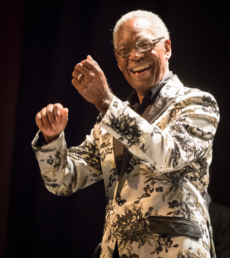 Don Bryant with The Bo-Keys at the stage at Cosmopolite. The concert took place on 08. September 2017. Lineup: Don Bryant (vocal), Joe Restivo (guitar), Scott Bomar (bass guitar), Dave Mason (drums), Archie Turner (organ), Kirk Smothers (tenor saxophone) and Marc Franklin (trumpet).